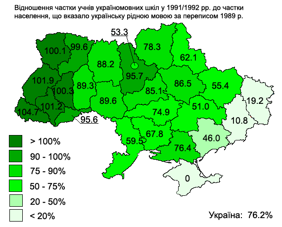 Proportion of students of schools with ukrainian language of instruction in 1991-1992 to the share of population who declared Ukrainian as their native language during the 1989 census